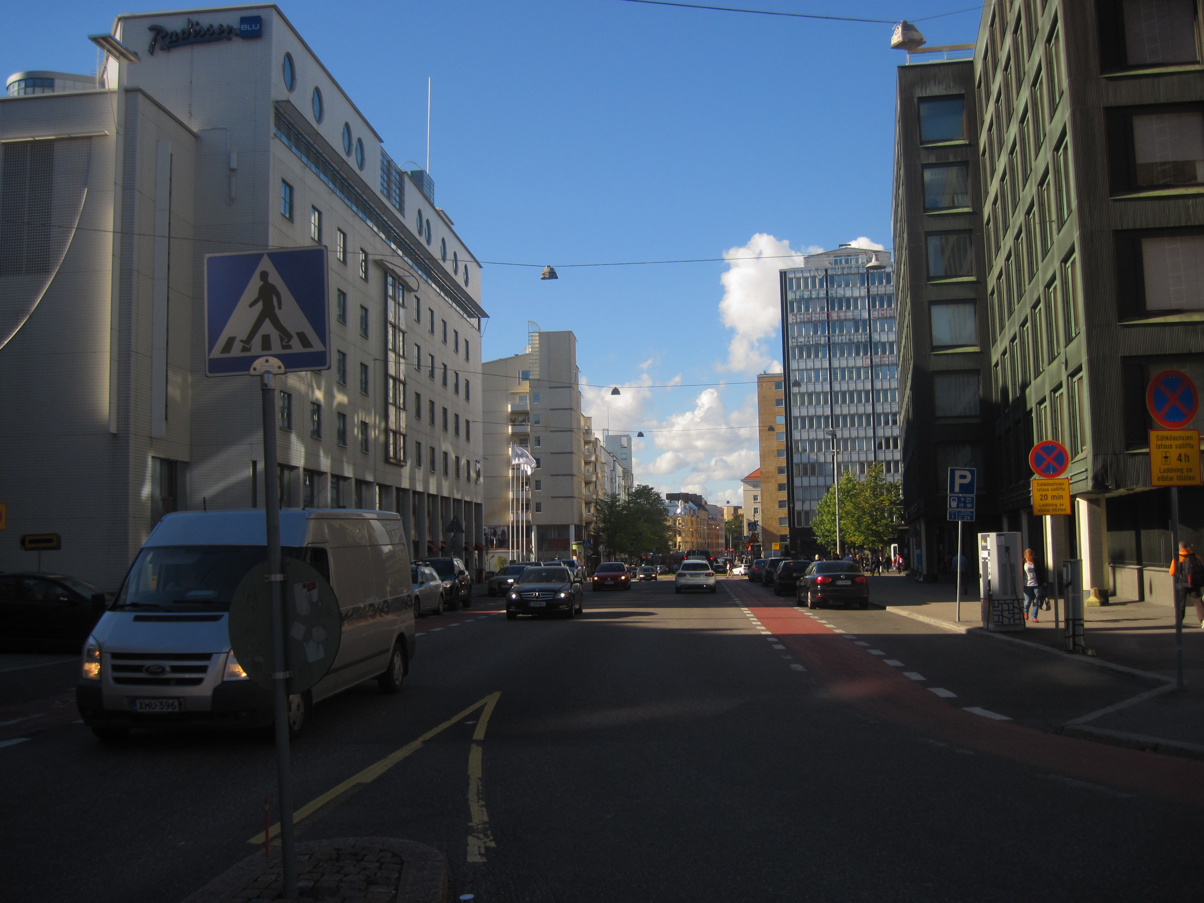 Southern end of Runeberginkatu in Helsinki